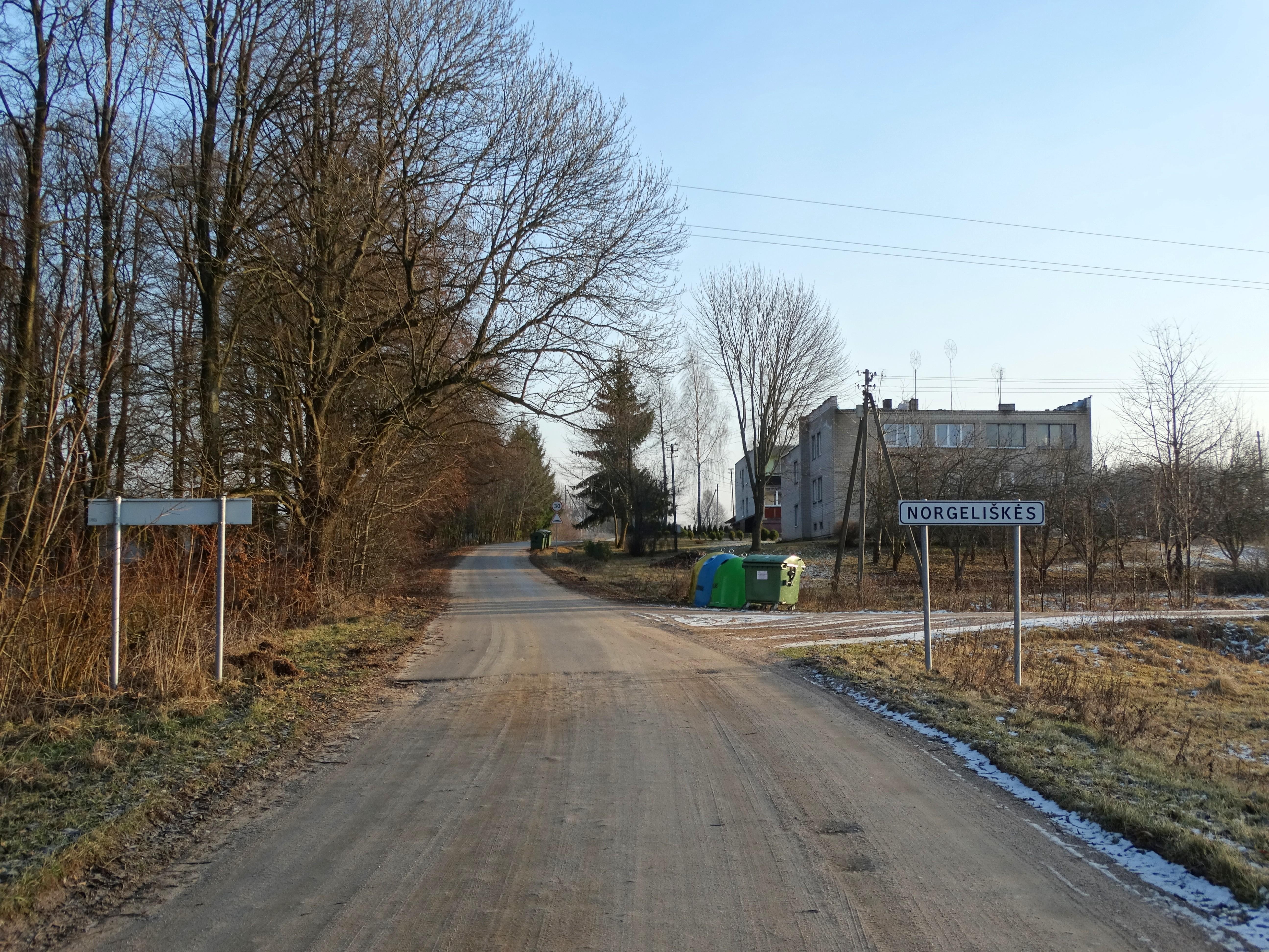 Norgeliškės, Alytus district, Lithuania